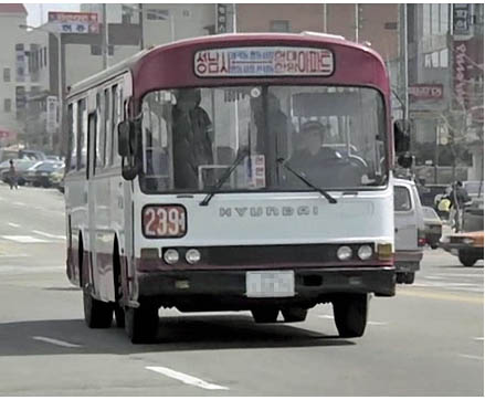 Seoul Buses (mid-1980s ~ early-1990s)